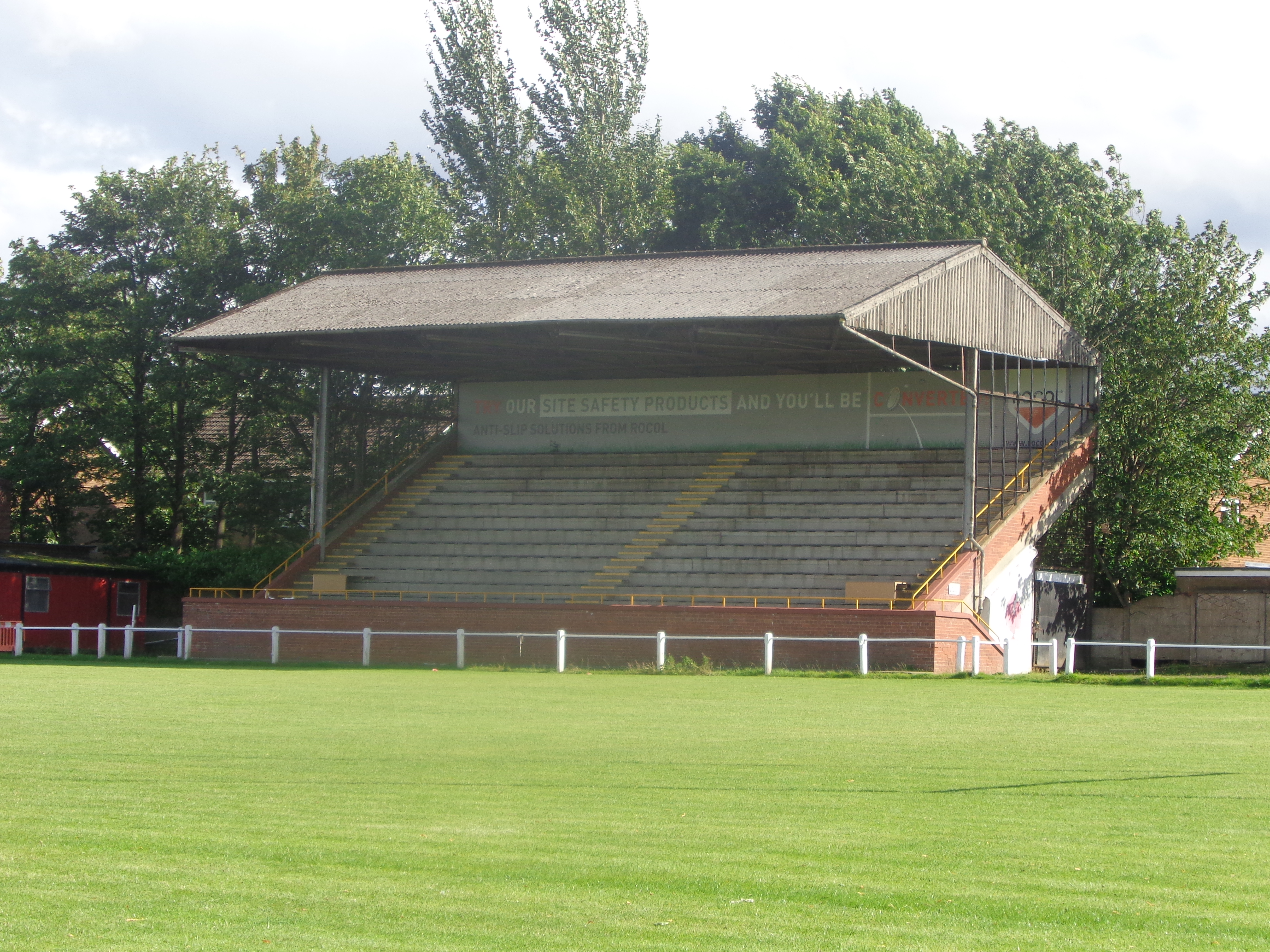 Harrogate Rugby Club's Claro Road ground. After around fifteen or twenty years at looking at moving from the dilapidated ground Harrogate Rugby Club have just (in the 2013-14 season) played their final season here. The lack of investment is evident. I believe the ground has been owned by a housing developer for many years and leased back to the club. Here the grandstand can be seen. Taken on the afternoon of Tuesday the 12th of October 2014.